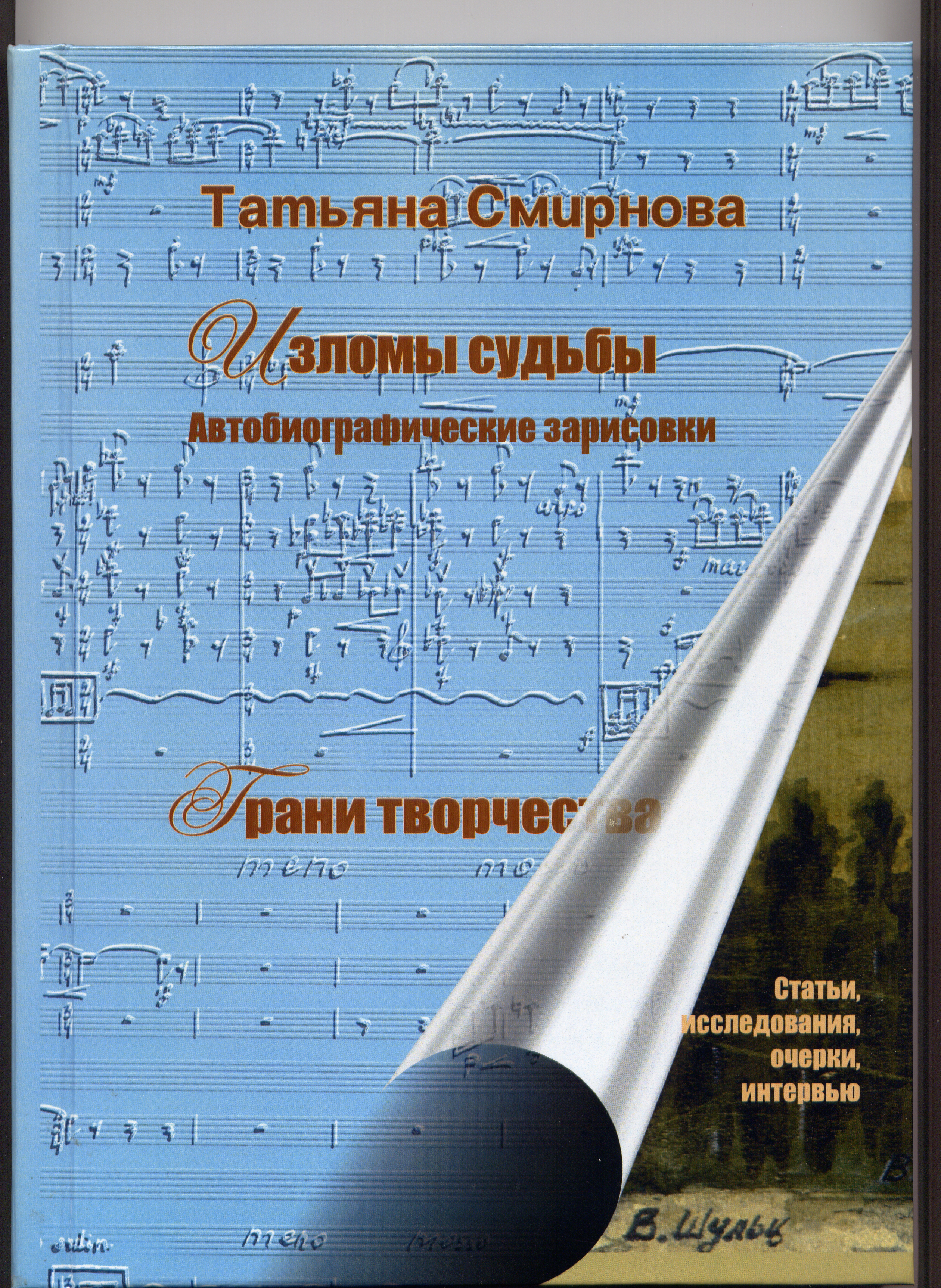 Т.Смирнова Изломы судьбы. Грани творчества. Автобиографическая книга.